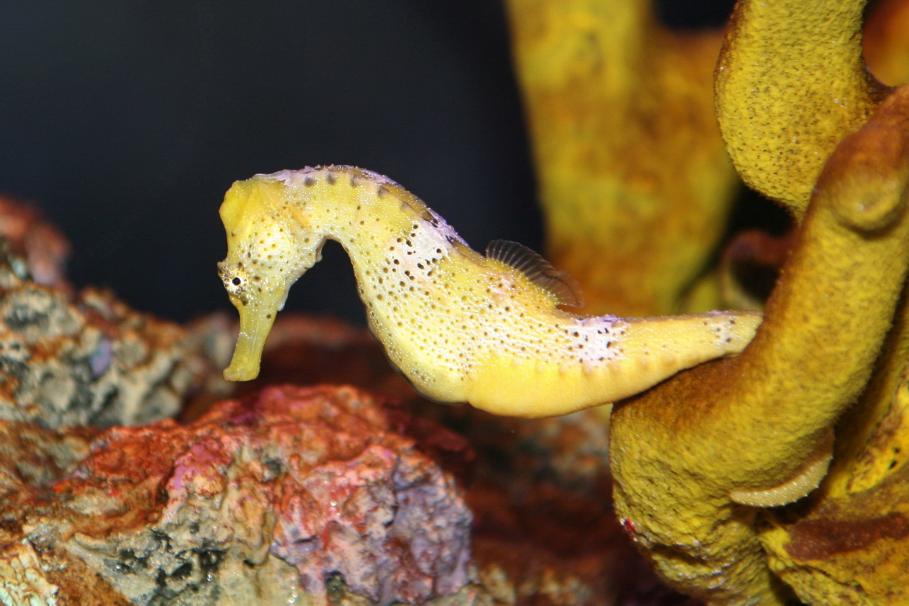 The Longsnout Seahorse with a coronet that is low-medium, rounded, may be quite large and convoluted. It may have no spine to low rounded tubercles. Other distinctive characters is a broad, almost double cheek and eye spines; long, thick snout; narrow body; usually no skin appendages. Color pattern is often spotted with brown, and numerous tiny white dots (especially on tail). The seahorse may have paler "saddles" across dorsolateral surfaces.